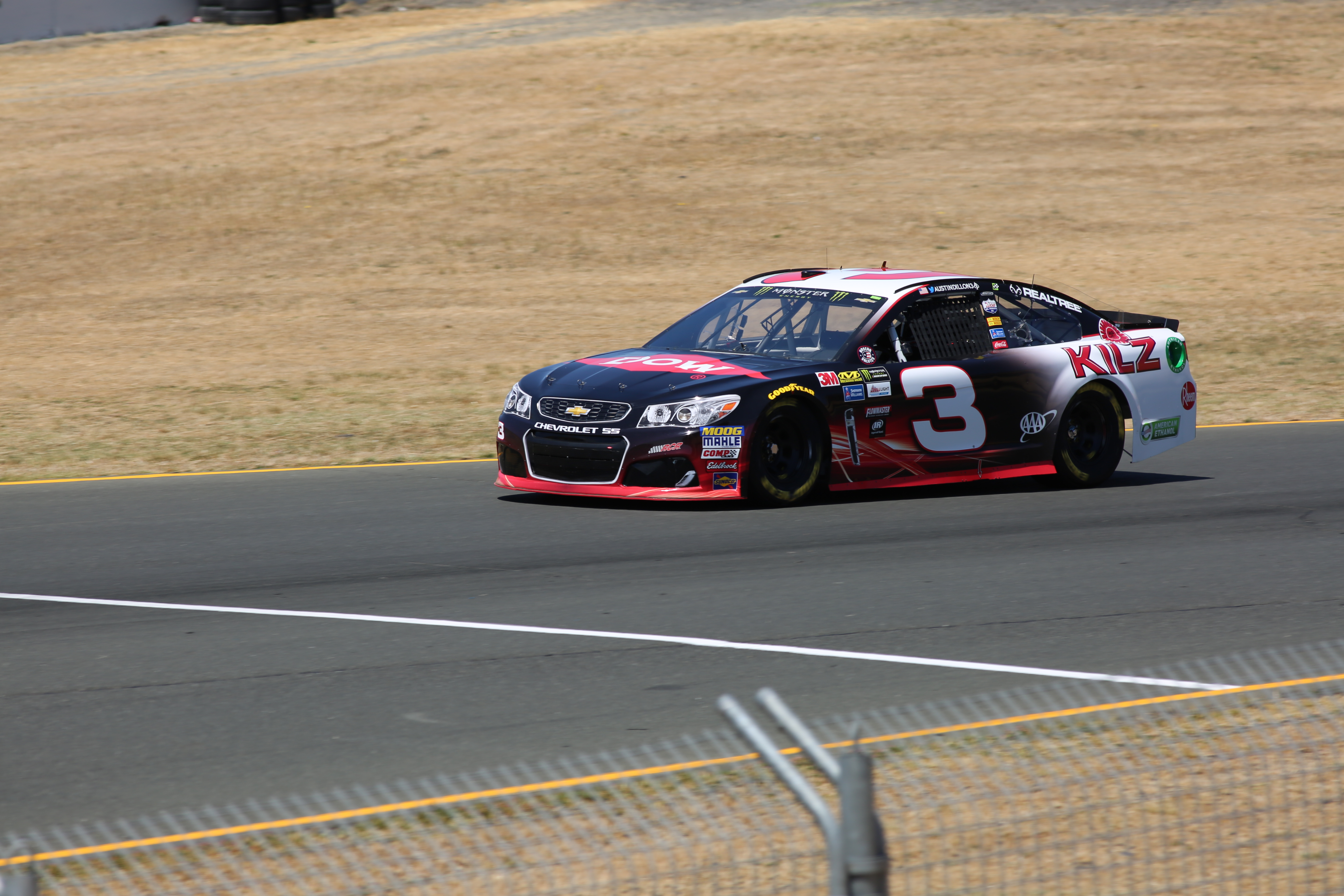 Austin Dillon's No. 3 Dow/Kilz Chevrolet at Sonoma Raceway in 2017